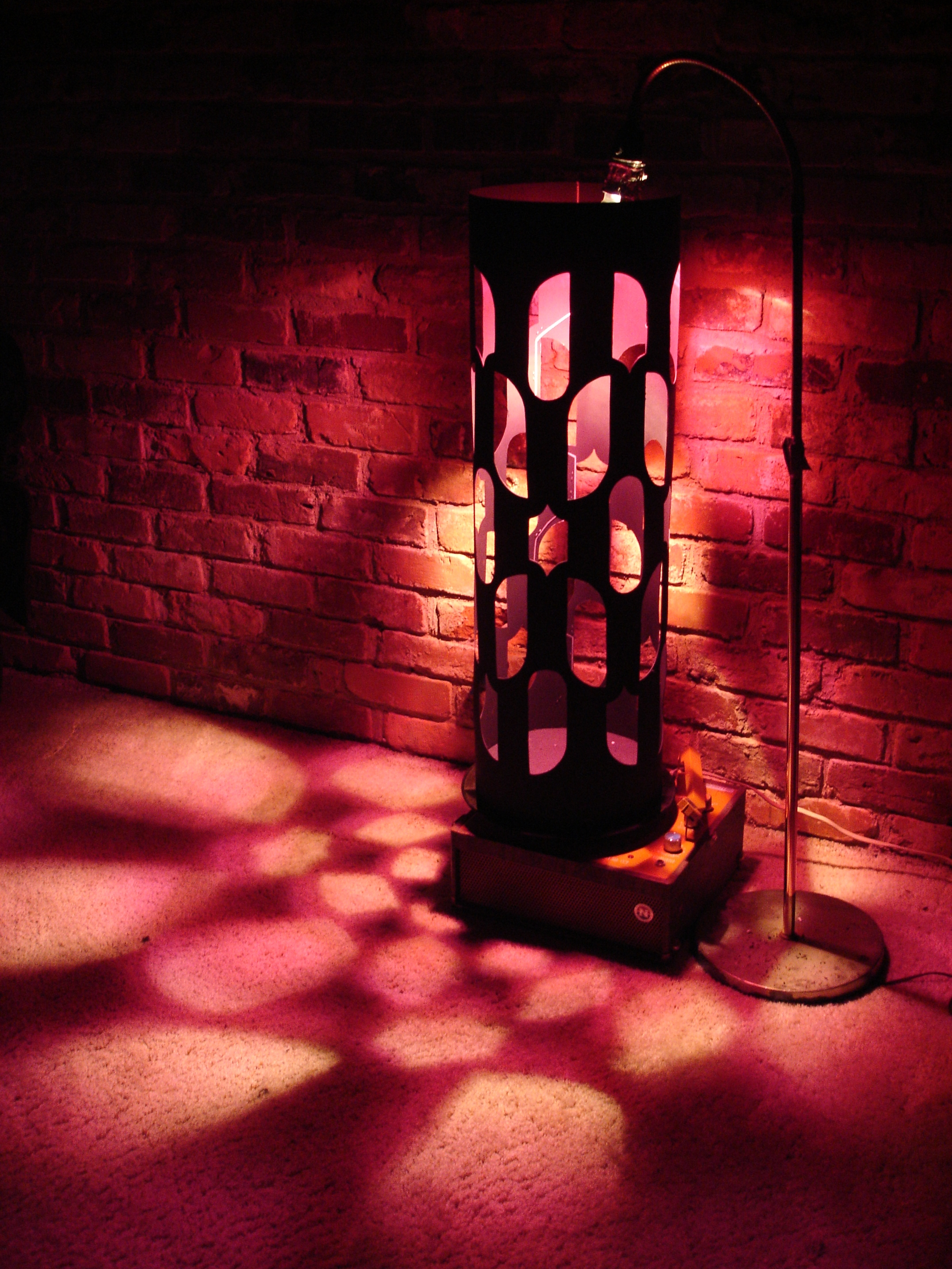 A picture of a dreamachine, not spinning, lit internally, room lights off, no flash. Taken and made Public Domain by Steve Burnett (email: burnett at pobox dot com ), Raleigh, NC, USA.